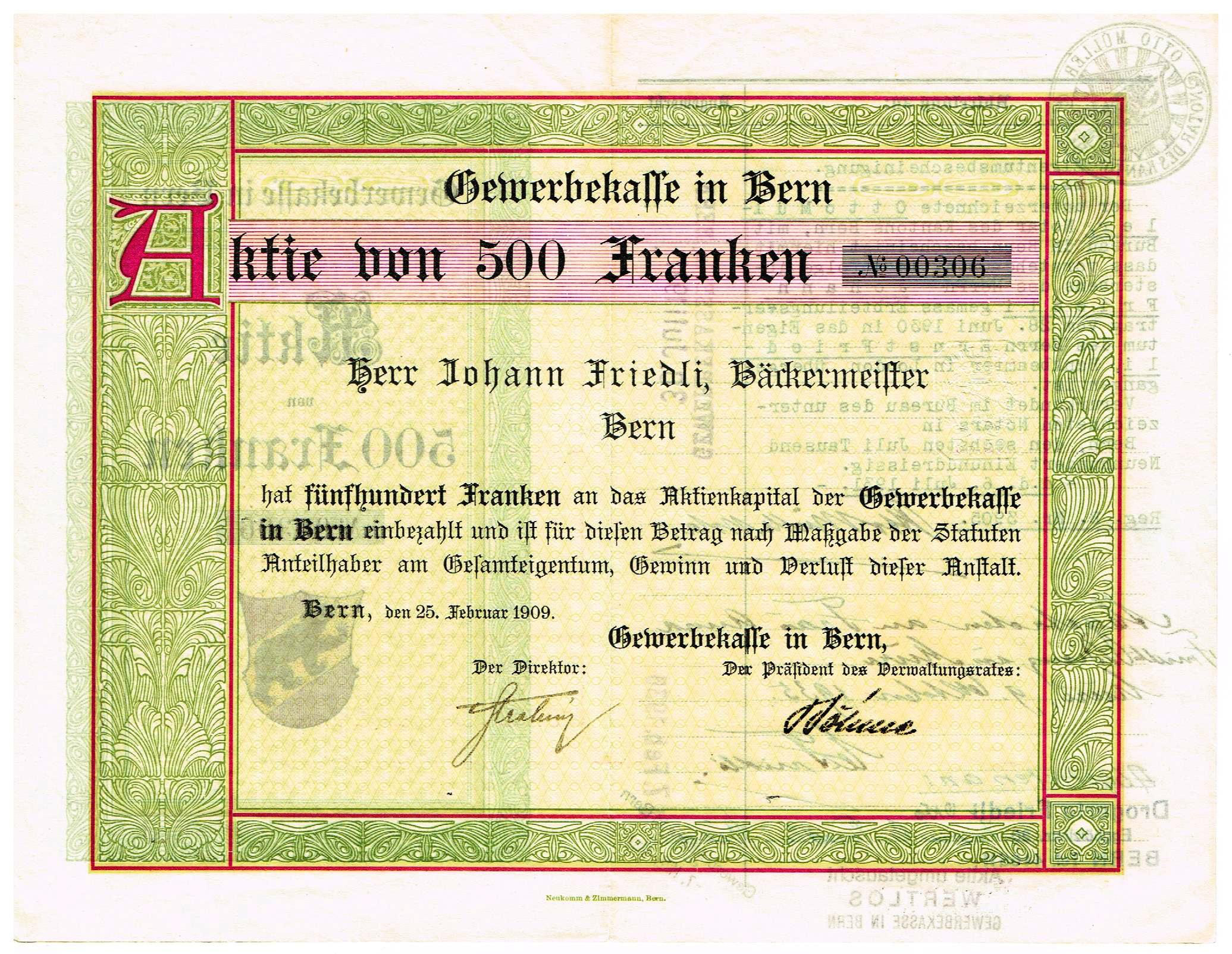 Share of the Gewerbekasse in Bern, issued 25. February 1909